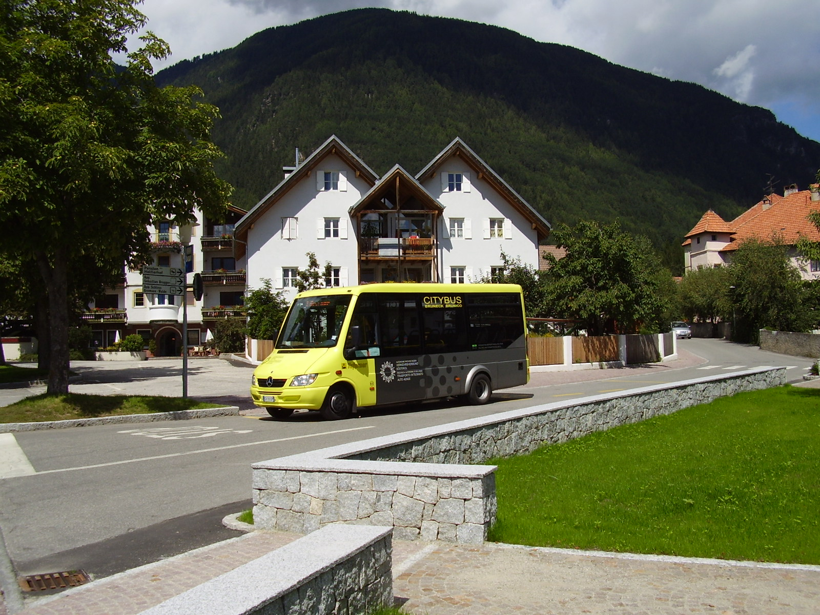 A "Citybus" in St. Georgen (Bruneck, South-Tyrol, Italy).